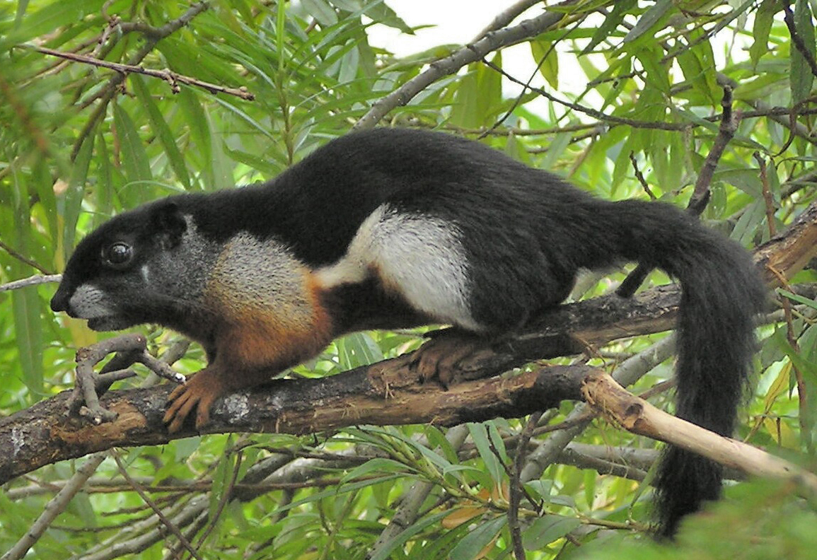 Prevost's Squirrel from zoo Ohrada near Hluboká na Vltavou (by České Budějovice), Czech Republic